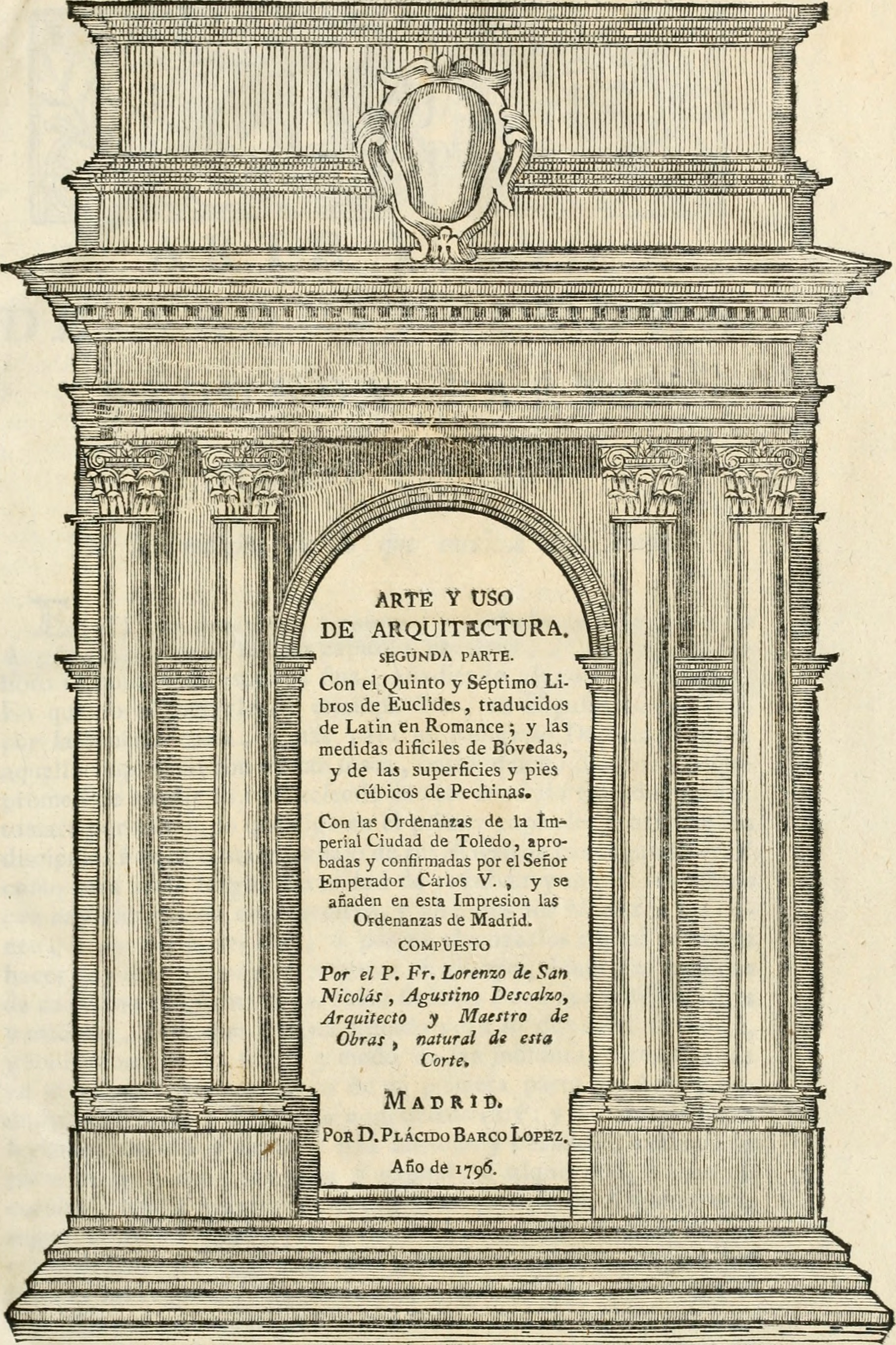 Title: Arte y uso de arquitectura Year: 1796 (1790s) Authors: Lorenzo de San Nicolás, Fray, 1595-1679 Euclid. Elements. Book 1. Spanish Barco López, Plácido Subjects: Architecture Building Geometry Publisher: Madrid : Por D. Placido Barco López Text Appearing Before Image: .-: Text Appearing After Image: Digitized by the Internet Archive in 2010 with funding from Research Library, The Getty Research Institute